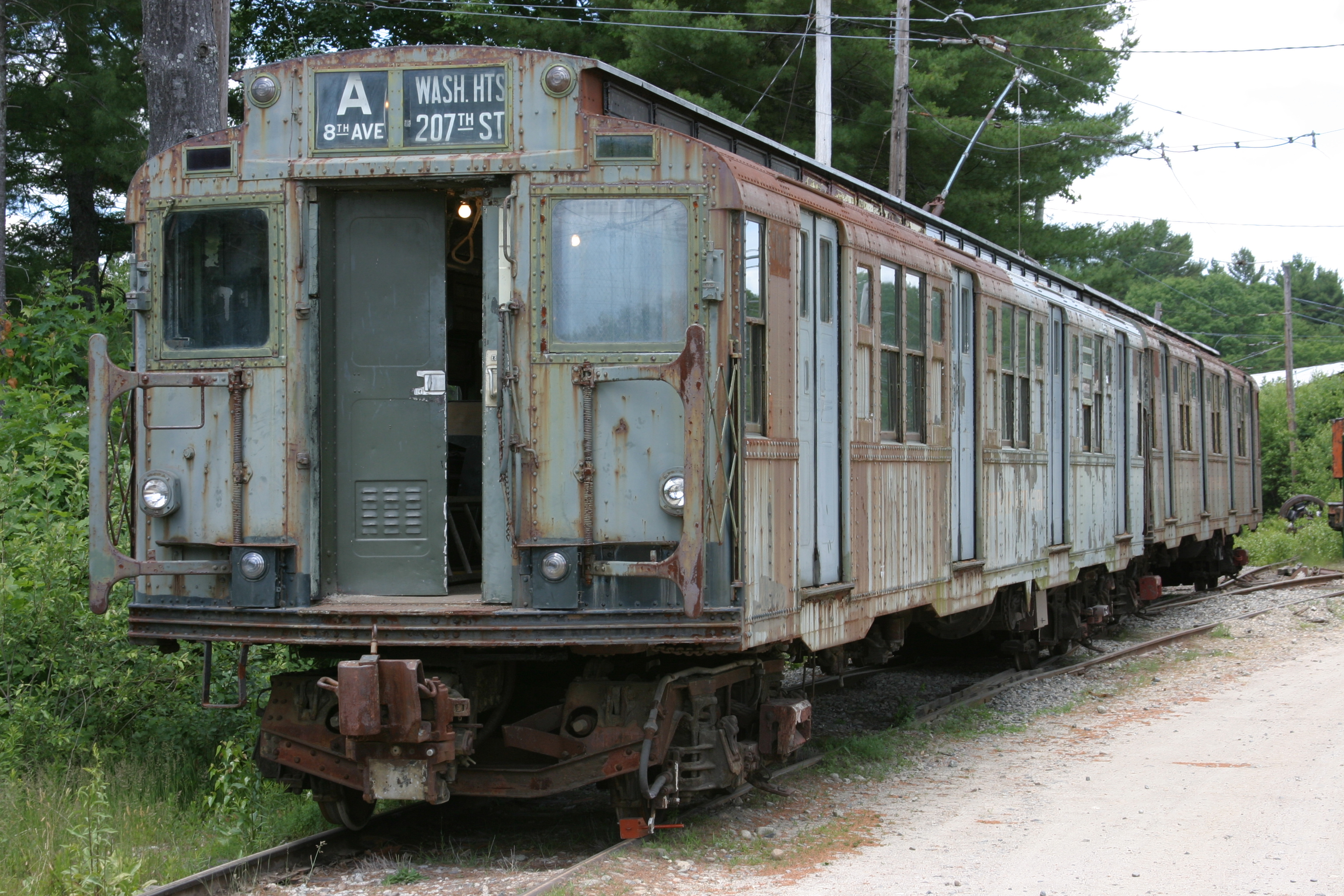 An R4 type New York City subway car. Seashore Trolley Museum.